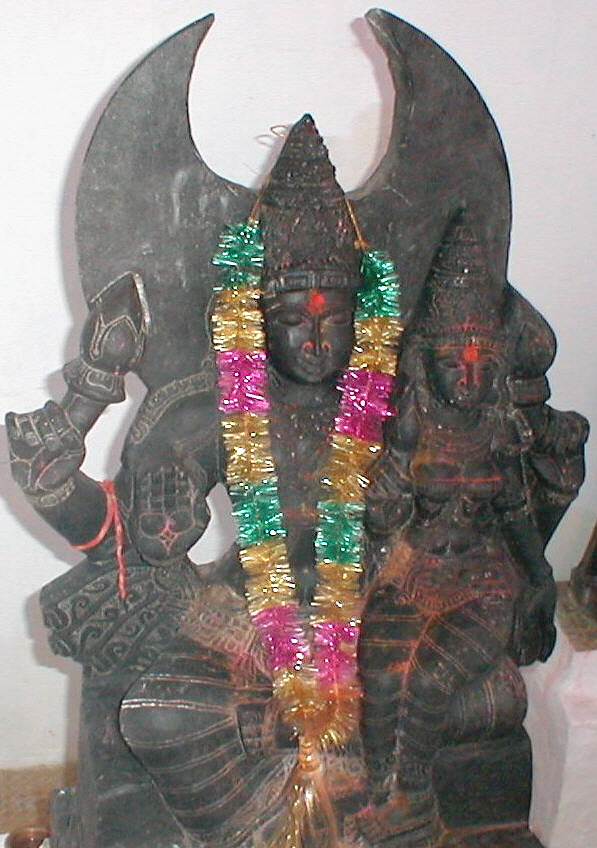 Surendrapuri Temple's Navagraha Temples, Chandra with Rohini